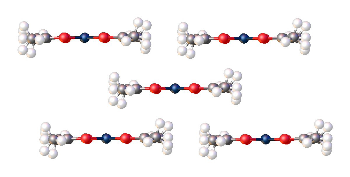 Pt(acac)2 side view, multiple molecules